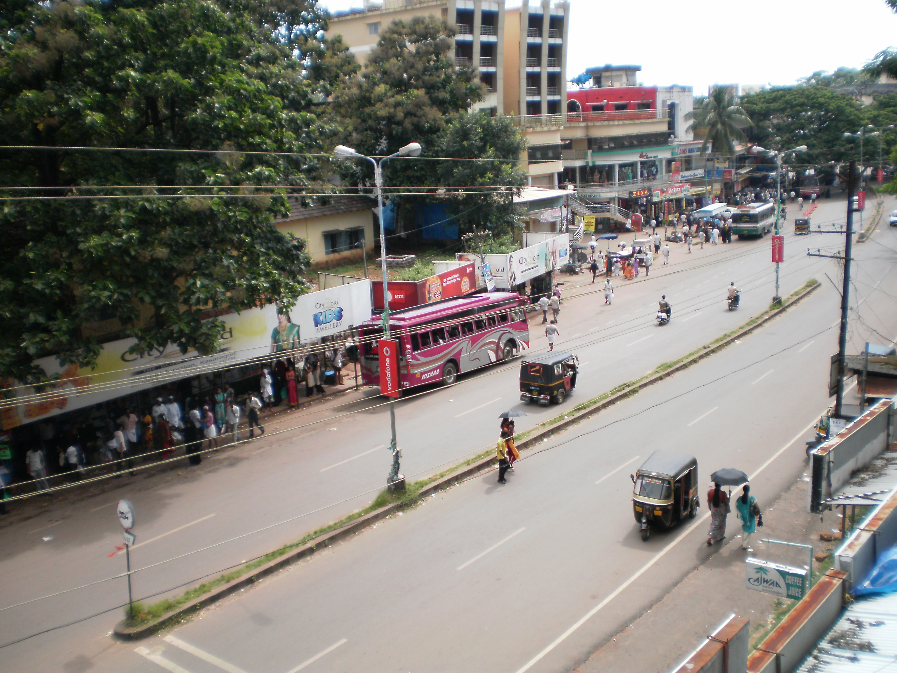 A view of the Kasaragod Town.